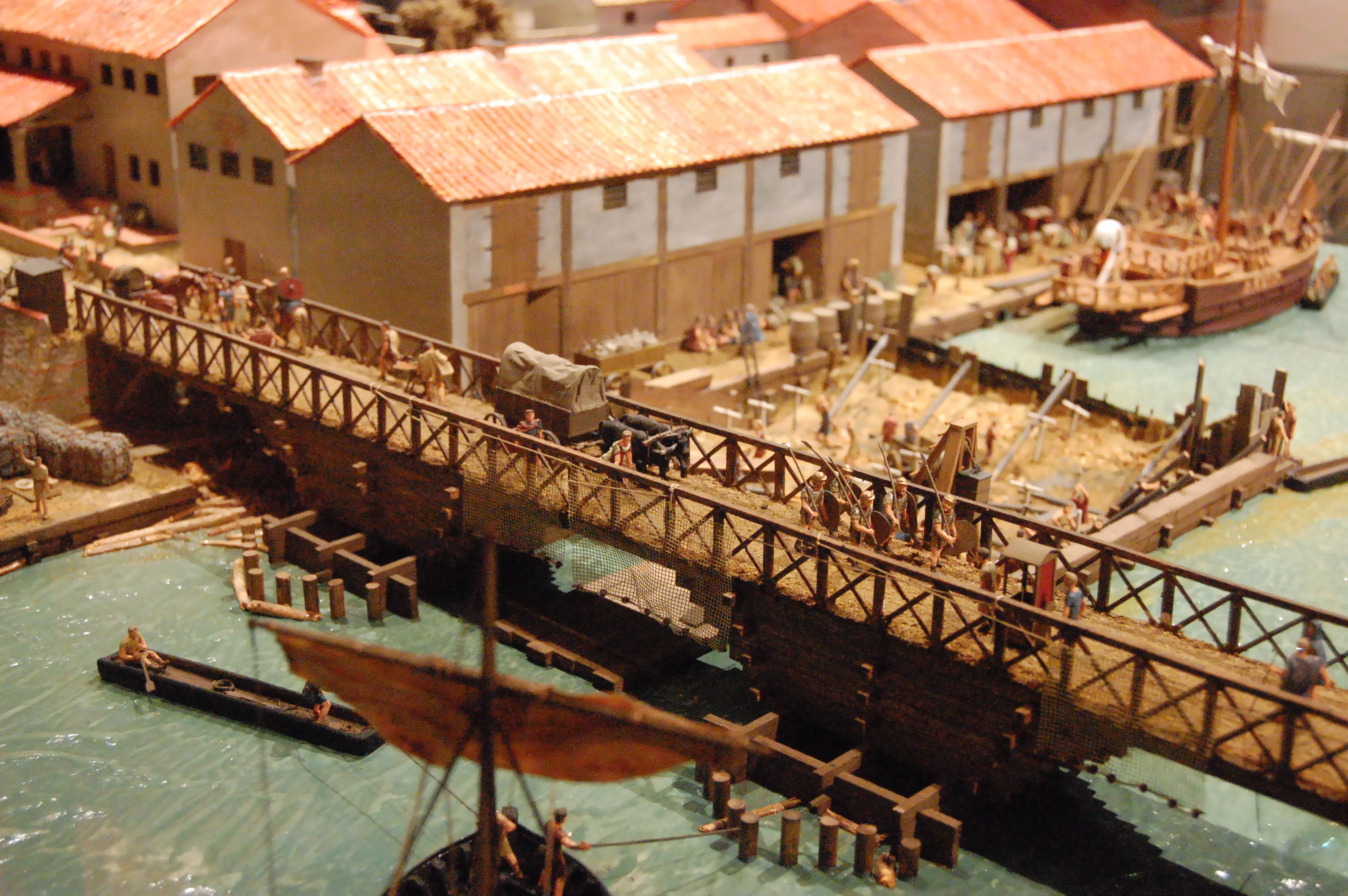 Model of London under Roman rule in AD 85-90, on display at the Museum of London. Visible in the model are the first bridge over the Thames (close to the current location of the London Bridge), river boats in the foreground, and a sea-going boat at upper-right. Museum of London Native nameMuseum of LondonLocationLondon, UK, EuropeCoordinates51° 31′ 03.74″ N, 0° 05′ 48.51″ W Established1970s date QS:P,+1970-00-00T00:00:00Z/8Web page control : Q917820 VIAF: 149902766 ISNI: 0000 0004 0424 9188 OSM: 2711501 GND: 4351000-0 SUDOC: 031652808 institution QS:P195,Q917820